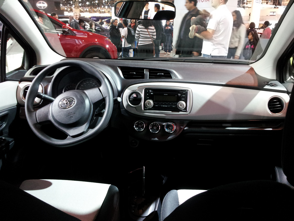 Interior of a 2013 Toyota Yaris at 2013 Canadian International Auto Show.